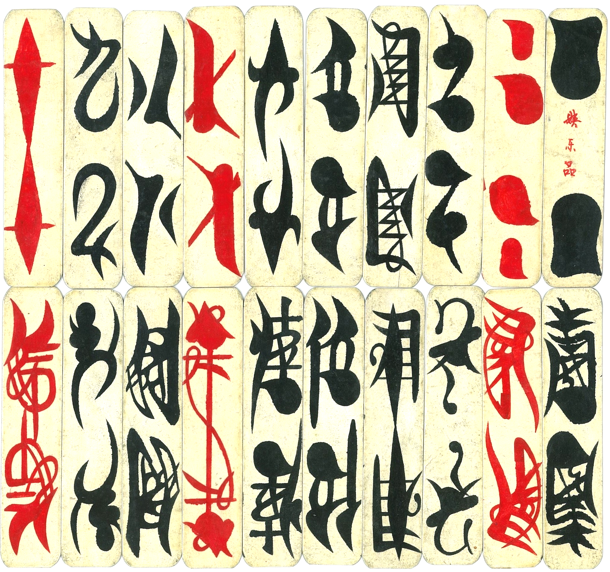 zi pai (glyph-card) de Guizhou